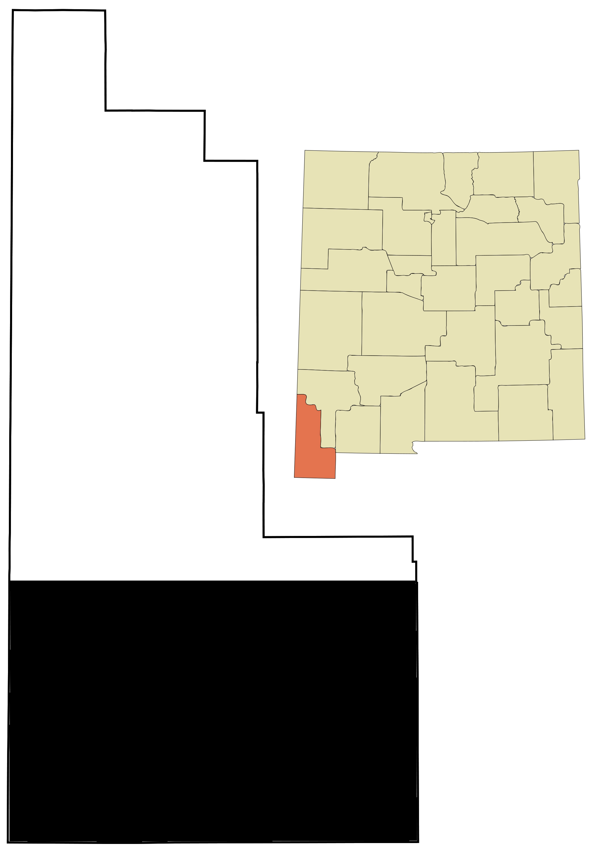 Modified from Arkyan'sFile:Hidalgo County New Mexico Incorporated and Unincorporated areas Lordsburg Highlighted.svg